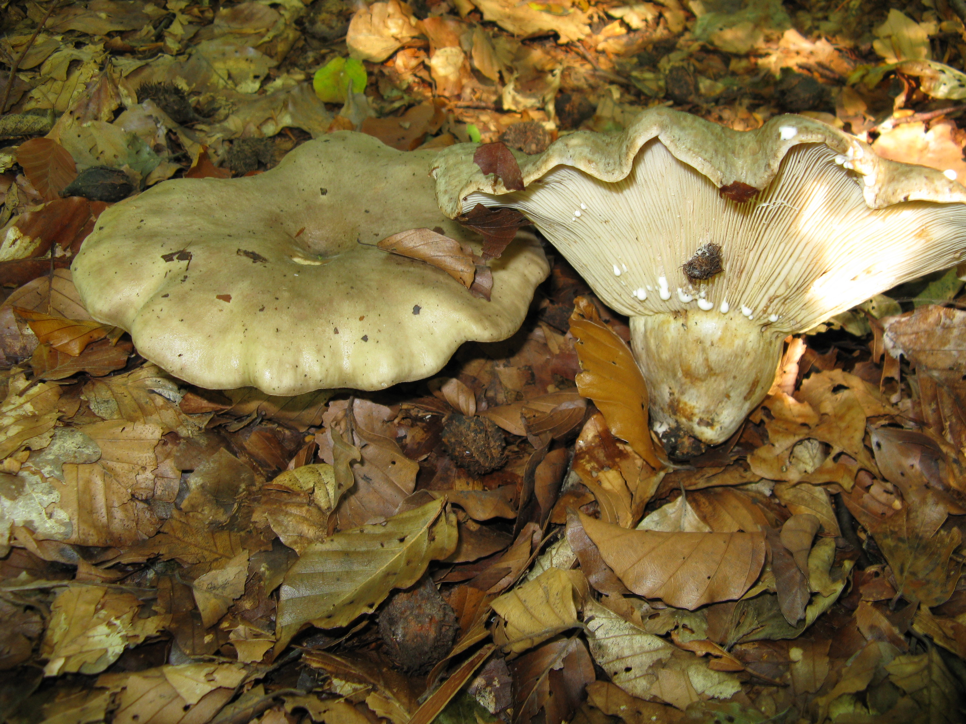 Lactarius vellereus